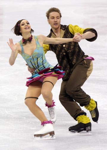 Skate_Canada_2008; Nathalie Péchalat and Fabian Bourzat_FD